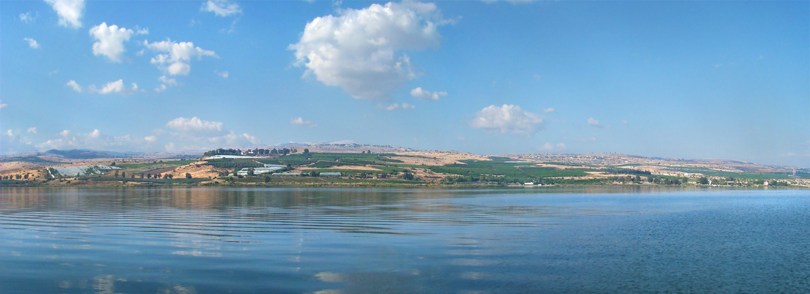 Lake Tiberias, Israel. Panoramic view near Capernaum, visible toward the right.